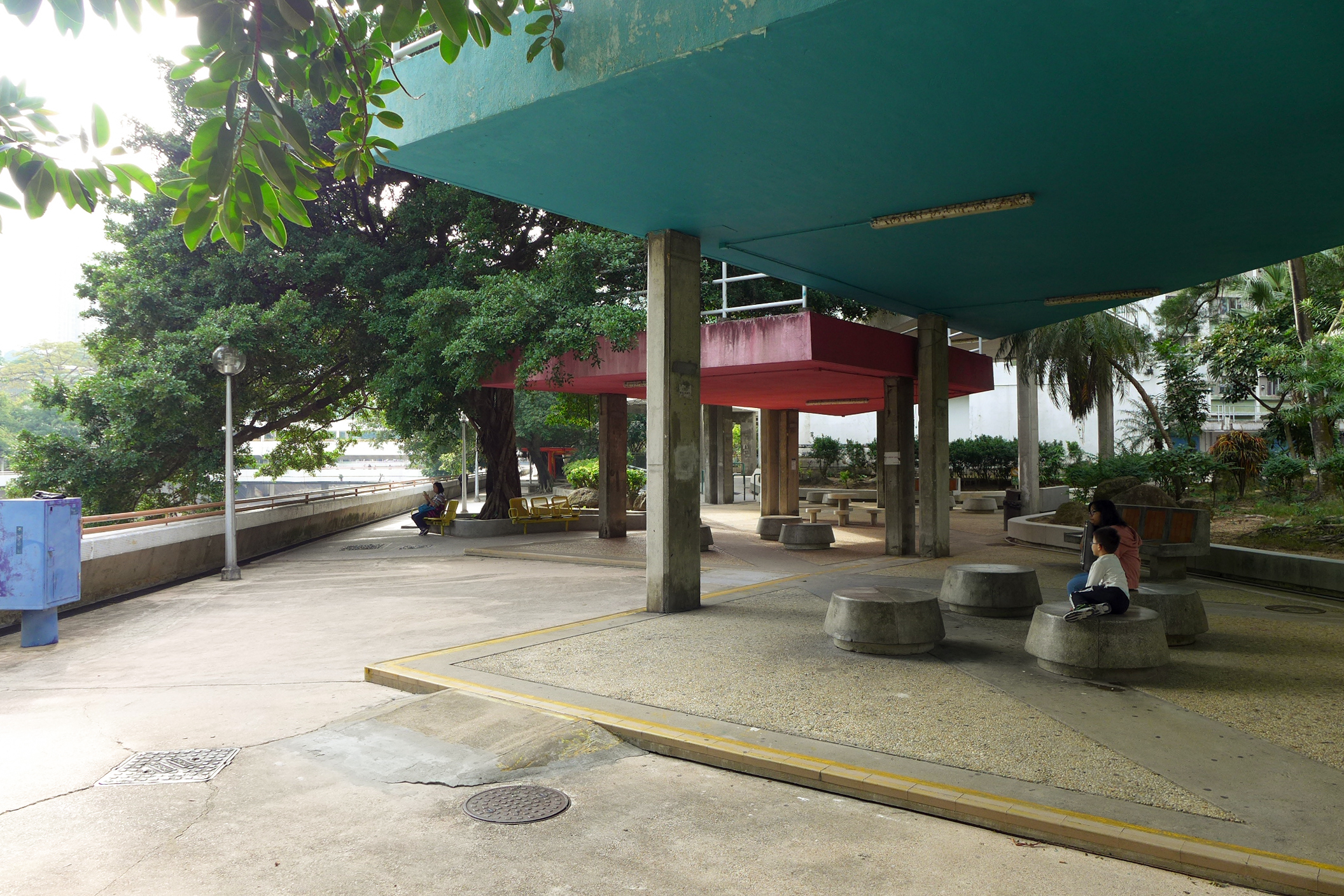 Mei Lam Estate Phase 2 coverway